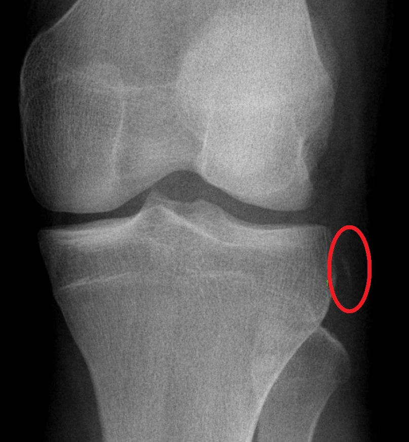 The circled area denotes an avulsion fracture fragment (aka. Segond fracture) of 16 year old who tore his anterior cruciate ligament (ACL) and medial meniscus during an athletic event. MRI confirmed the 16 year-old's injury.